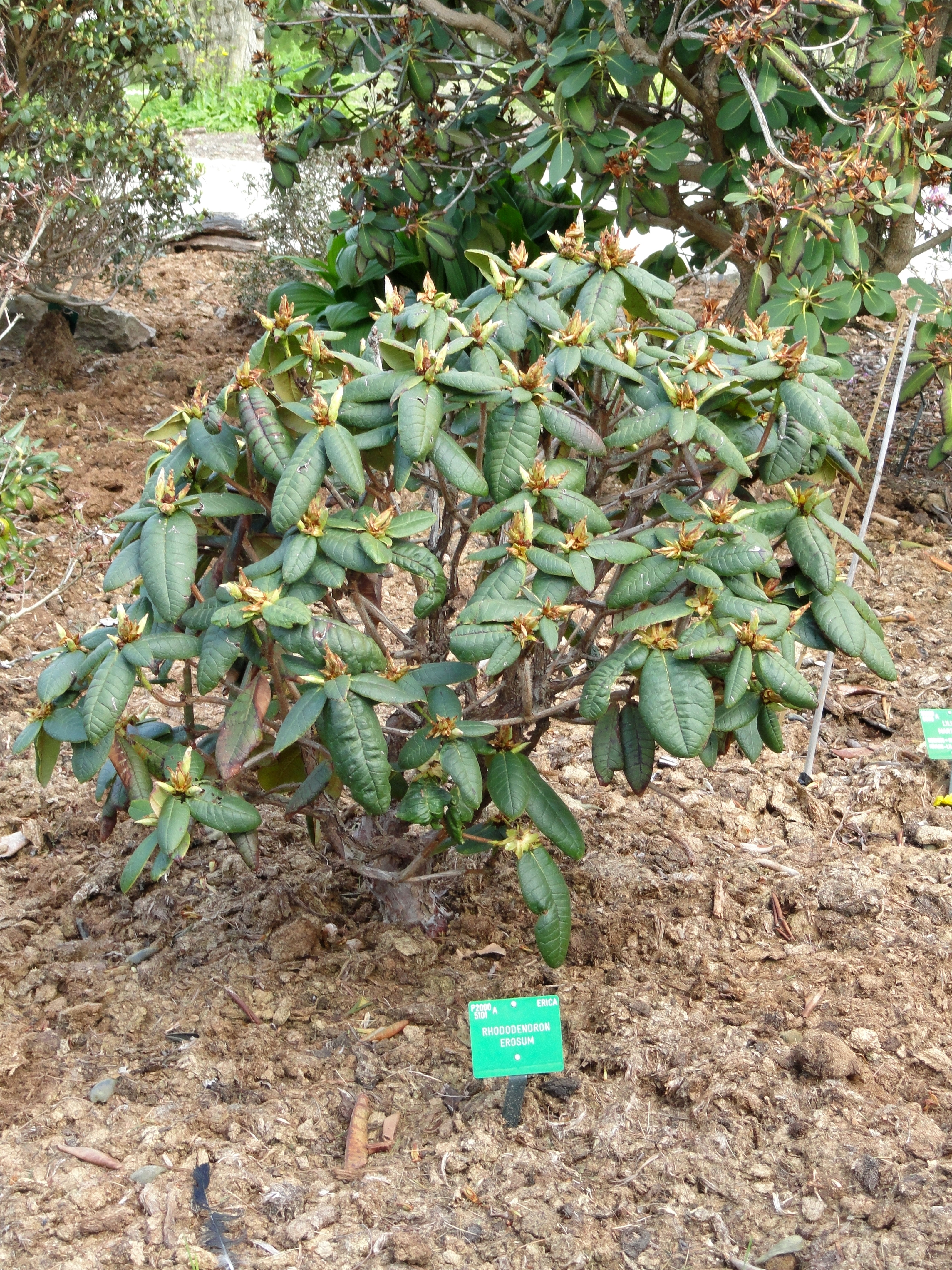 Rhododendron erosum specimen in the University of Copenhagen Botanical Garden, Copenhagen, Denmark.